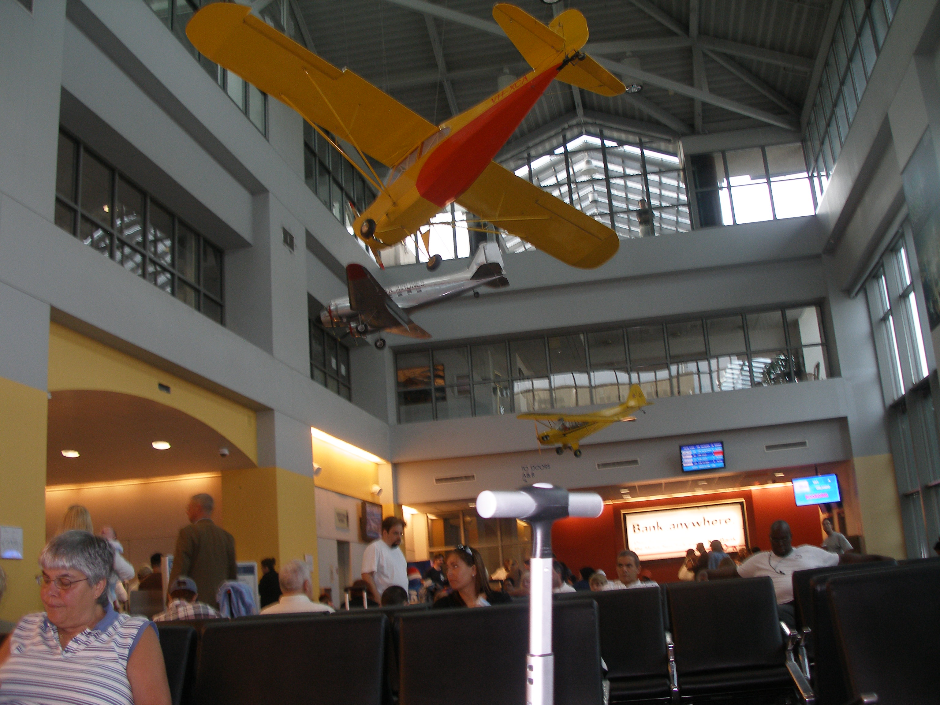 The waiting area at the terminal at Westchester County Airport, White Plains, New York